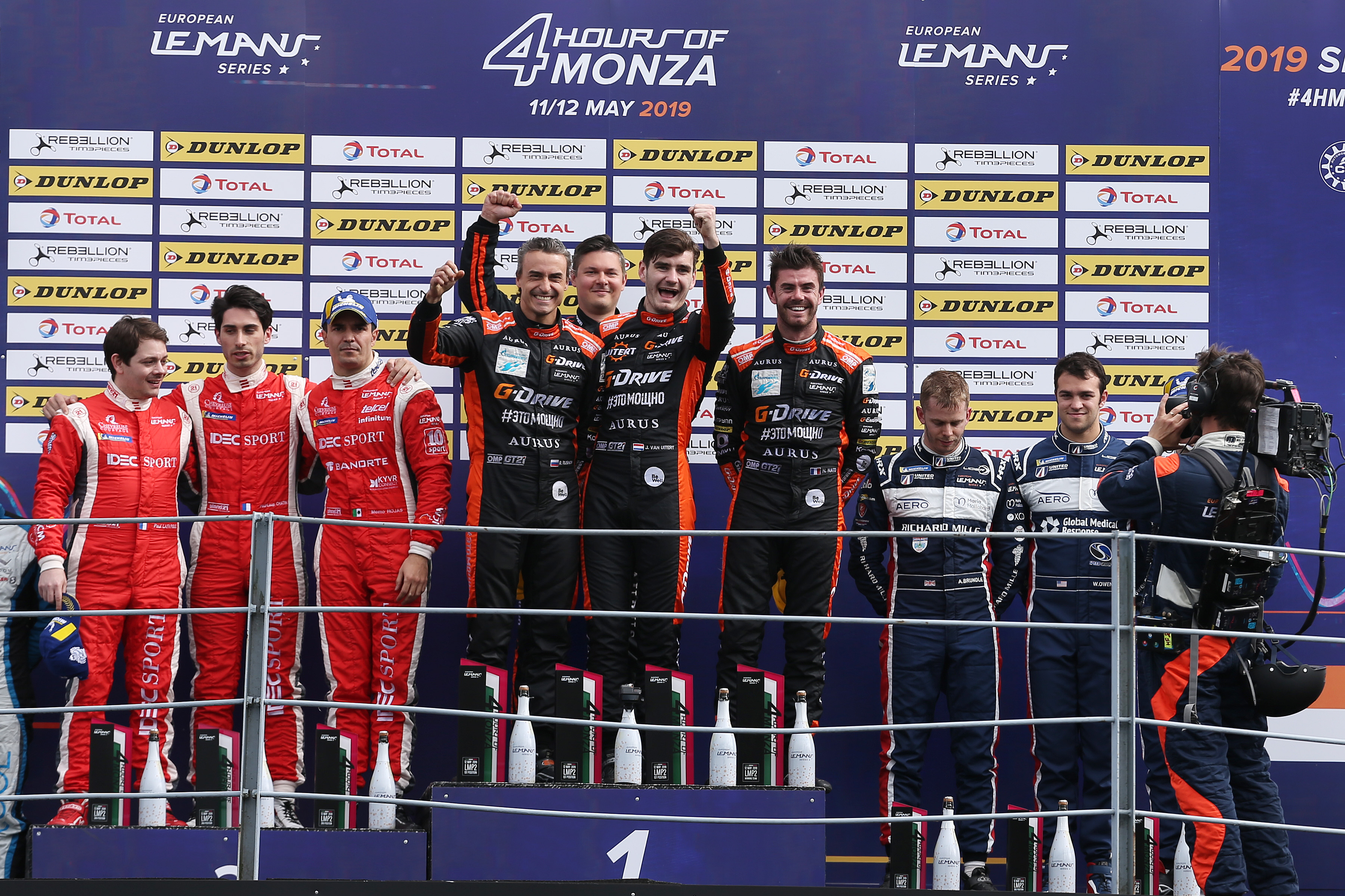 2019 4 Hours of Monza podium with Roman Rusinov, Job van Uitert, Norman Nato, Paul Lafargue, Paul-Loup Chatin, Memo Rojas, Ryan Cullen, Alex Brundle and William Owen